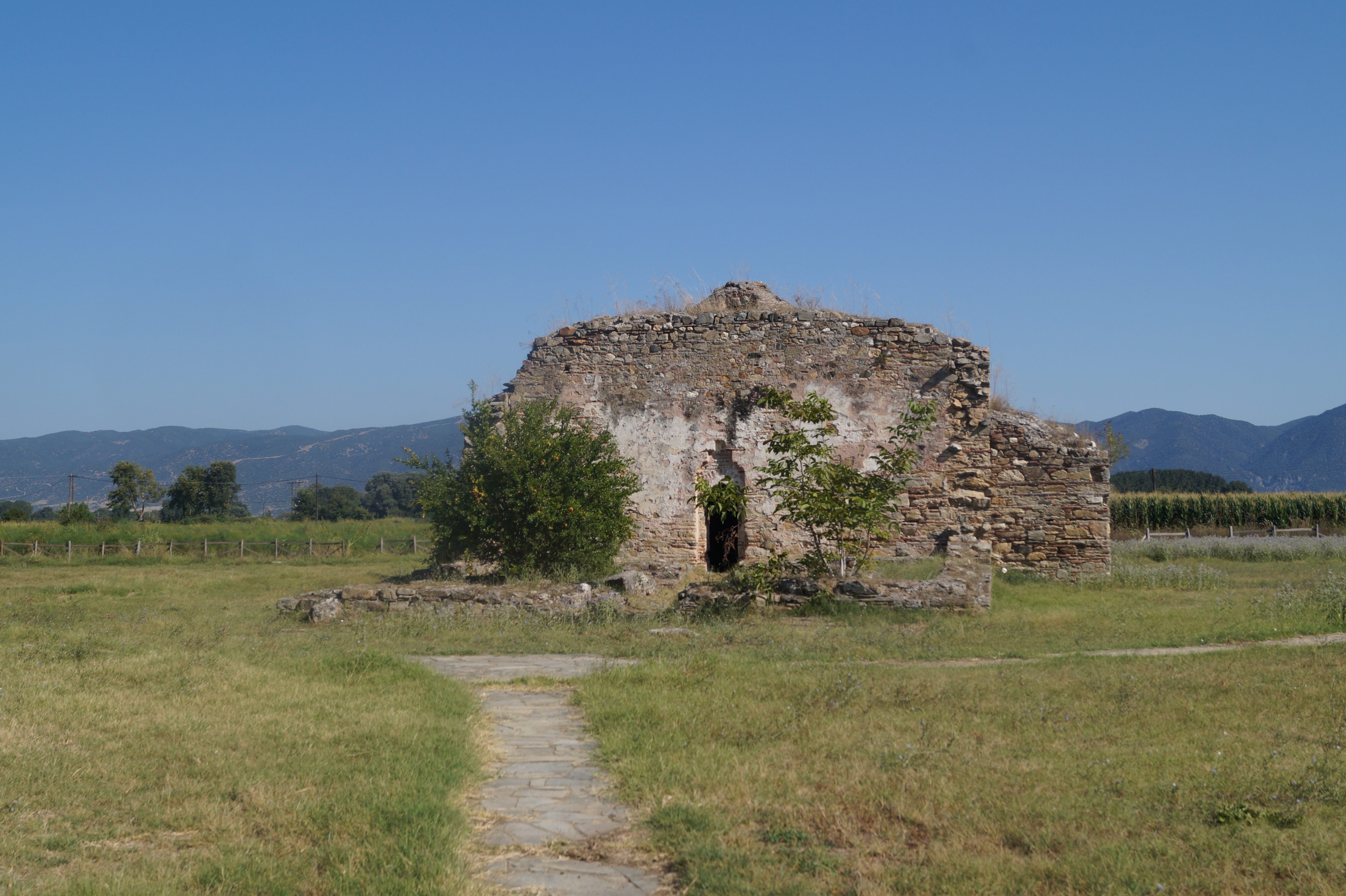 Apollonia, Makedonia, Greece: Ottoman bath (16th century)